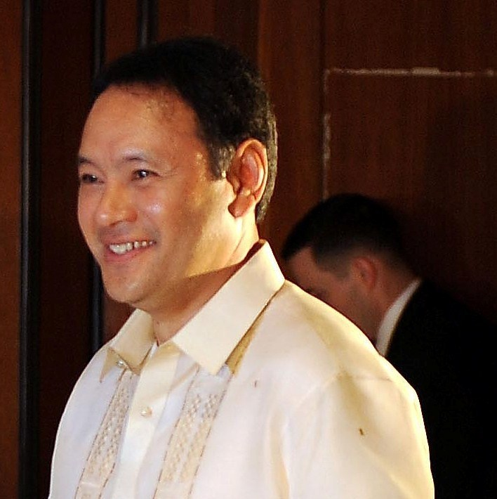 Category:Politicians of the Philippines 20090601